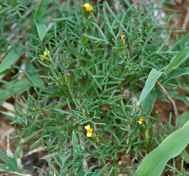 Glossocardia bosvallia (syn. Glossocardia linearifolia)- Pithari, Seri in Hindi, Parpataka in Kannada, Patharasuva in Marathi, Parapalanamu in Telugu- in Keesara, Rangareddy district, Andhra Pradesh, India.